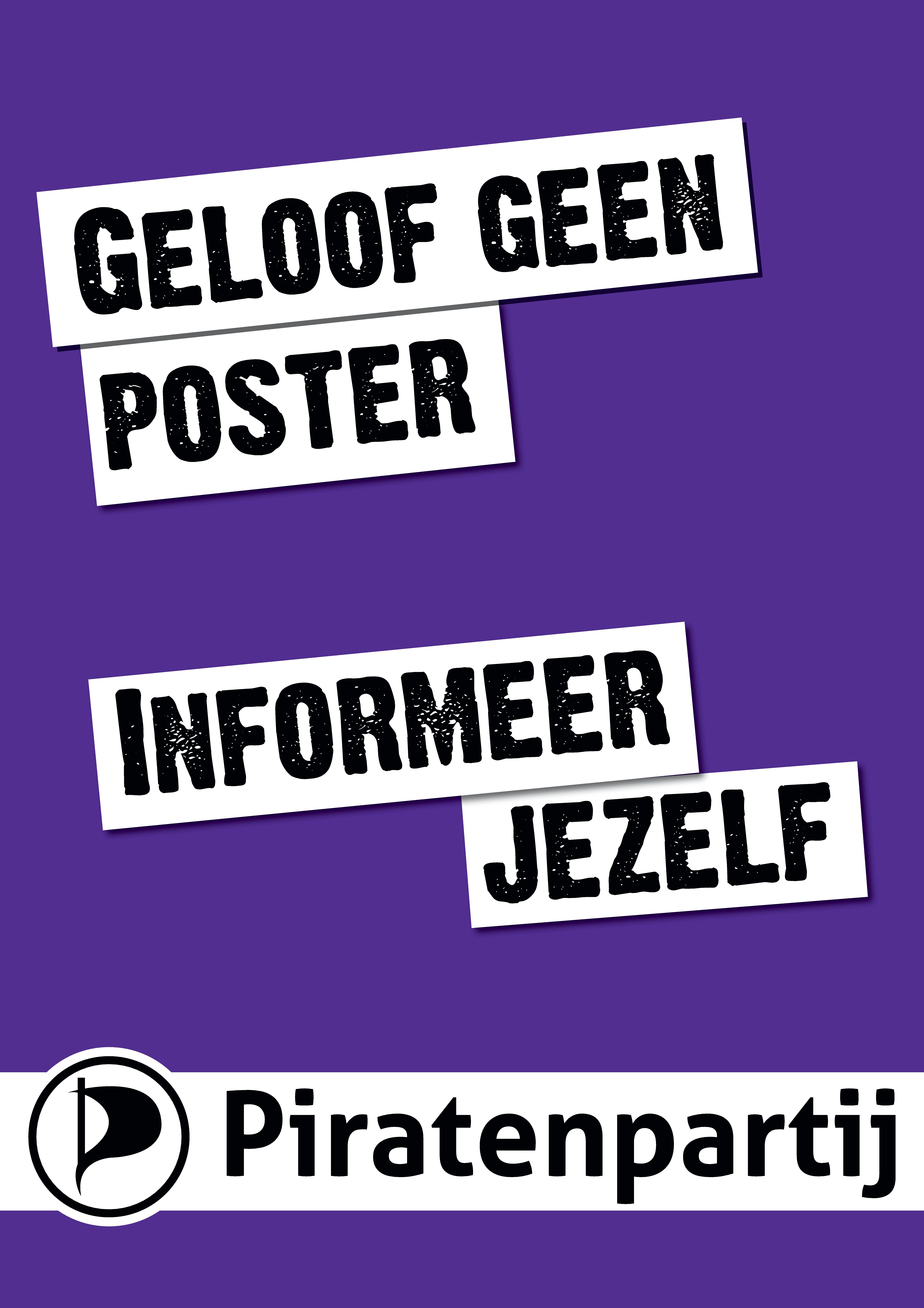 Campaign poster of the Dutch Pirate Party in the 2012 general elections